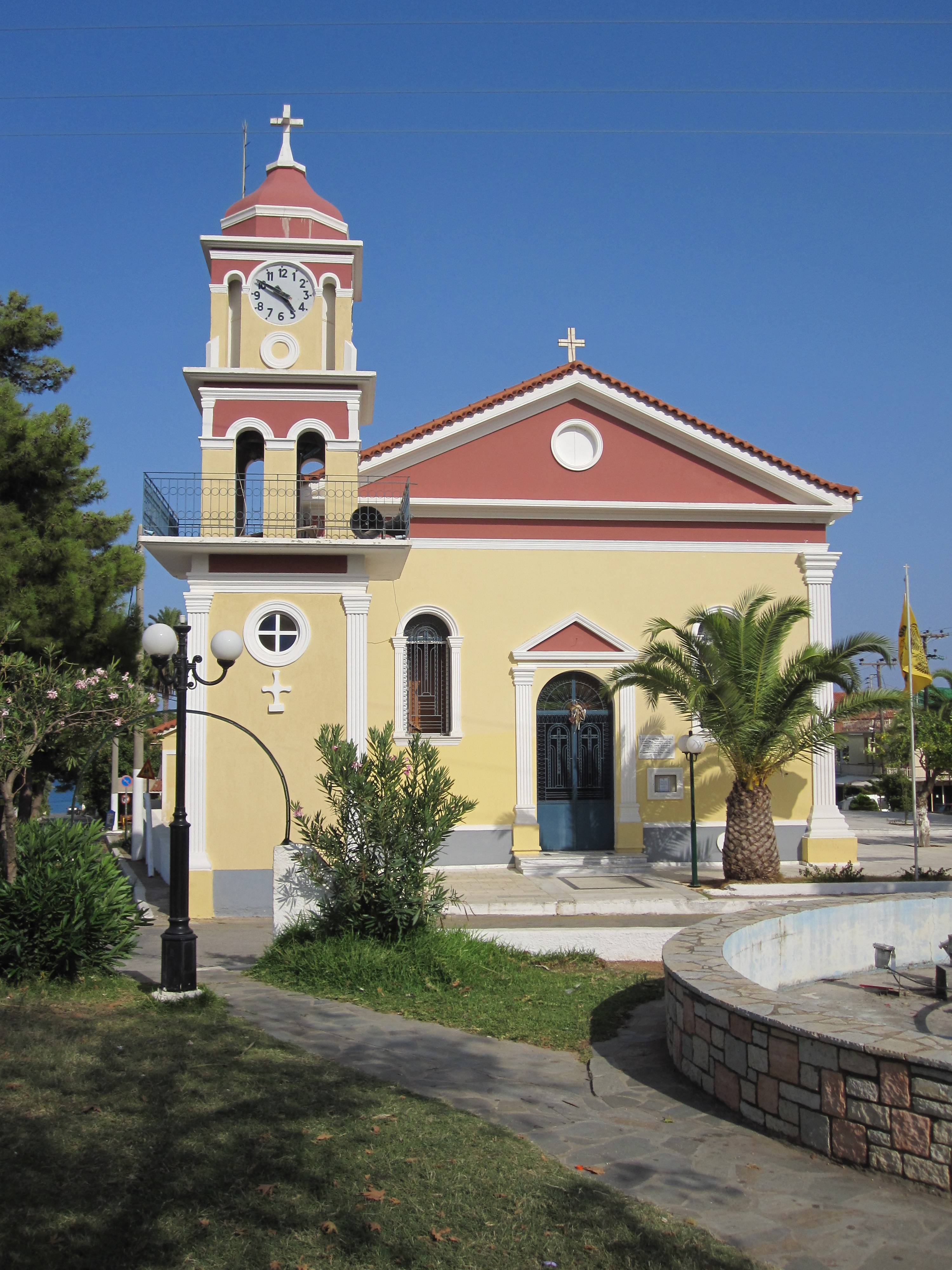 St. Gerasimos church in Skala, kefalonia, Greece